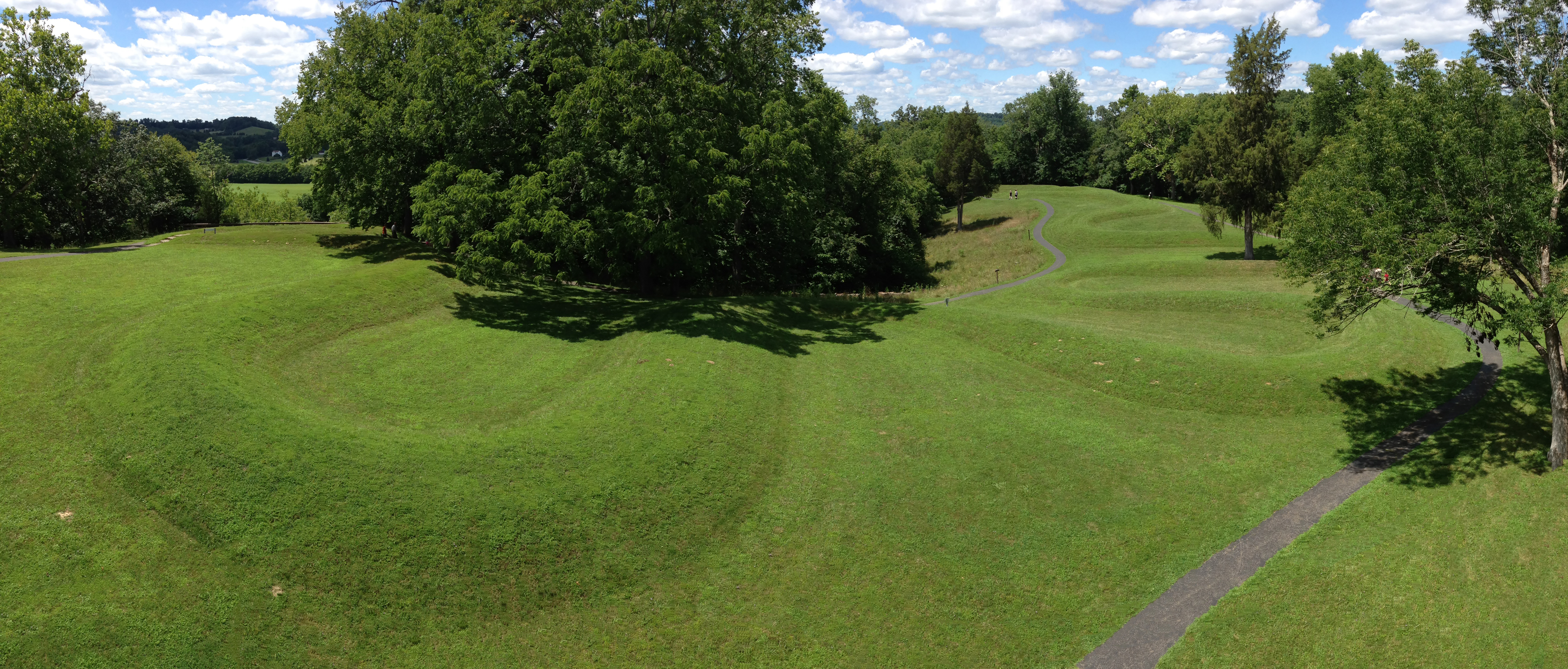 This image was taken in July, 2013, and shows the entirety of The Great Serpent Mound located near Peebles, Ohio, United States. From left, the image shows the serpent's triple-coiled tail, follows its writhing body northward and ends at the effigy's open-mouthed head (in the distance at the right side of the photograph).